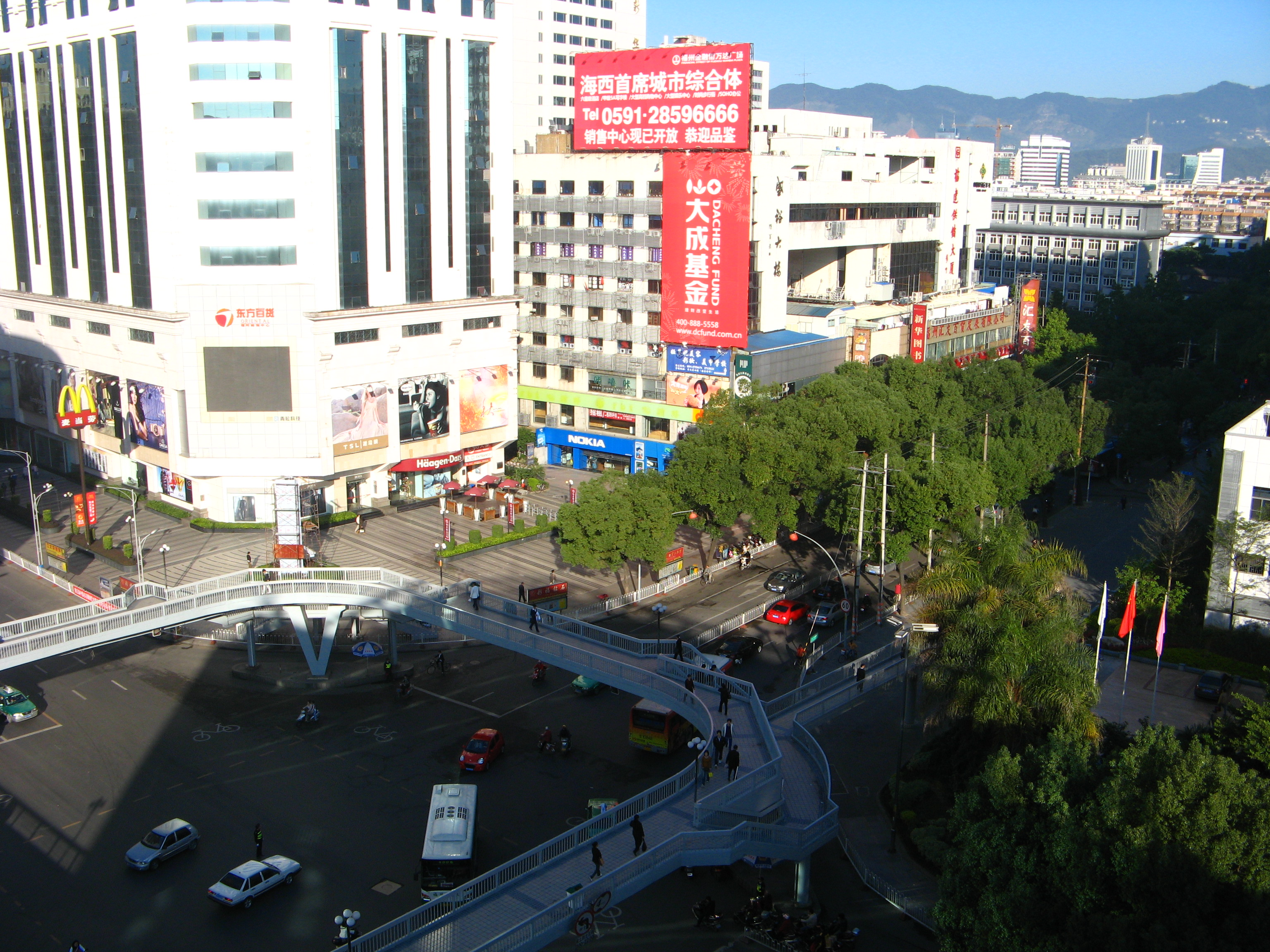 East Street Crossroads, Fuzhou